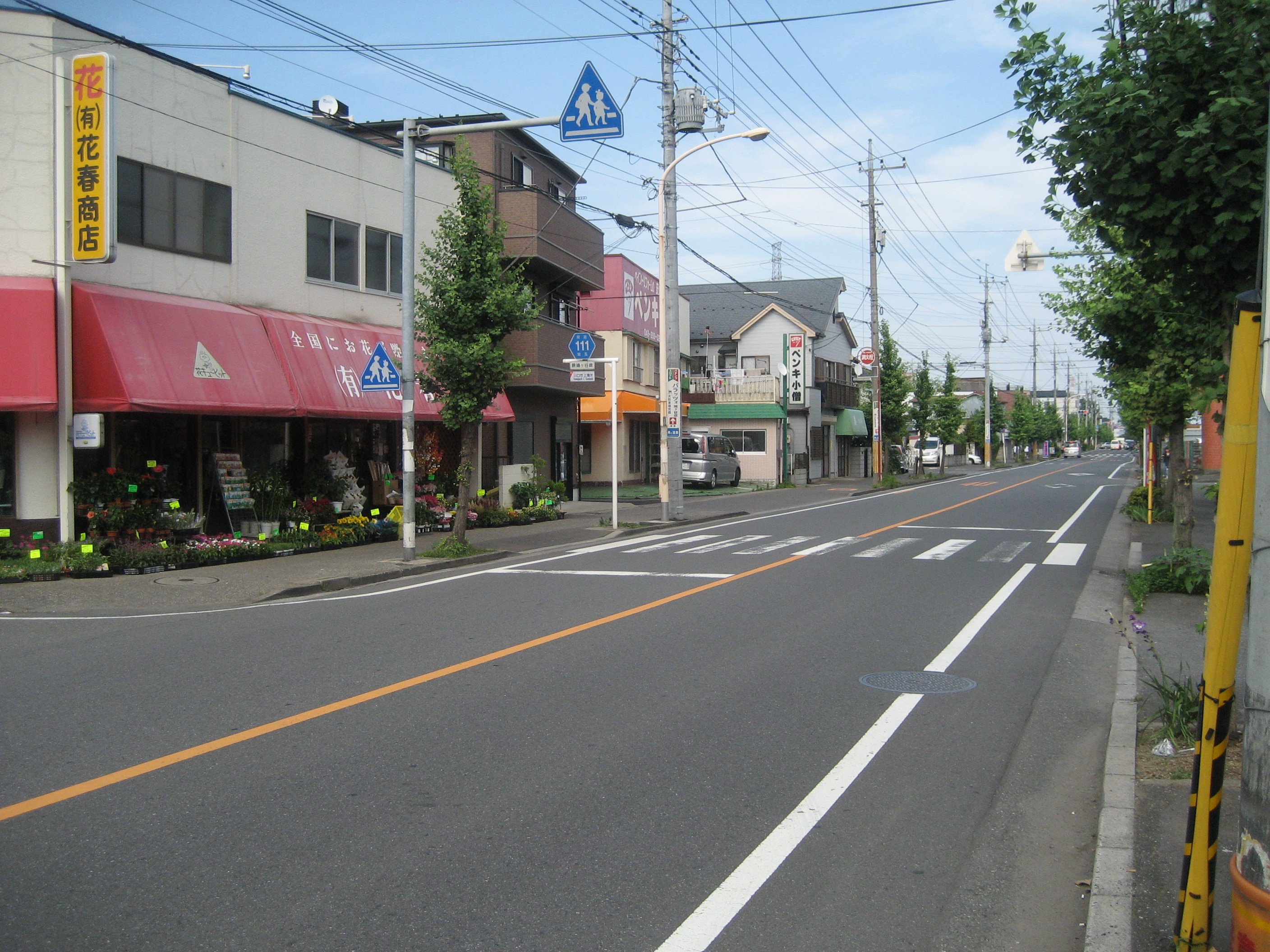 The Saitama Prefectural Road Route 111 in Kawaguchi City